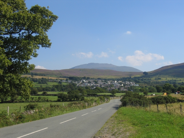 Rhiwlas. Looking towards Rhiwlas from the junction with the Caernarfon Road at Pentir.